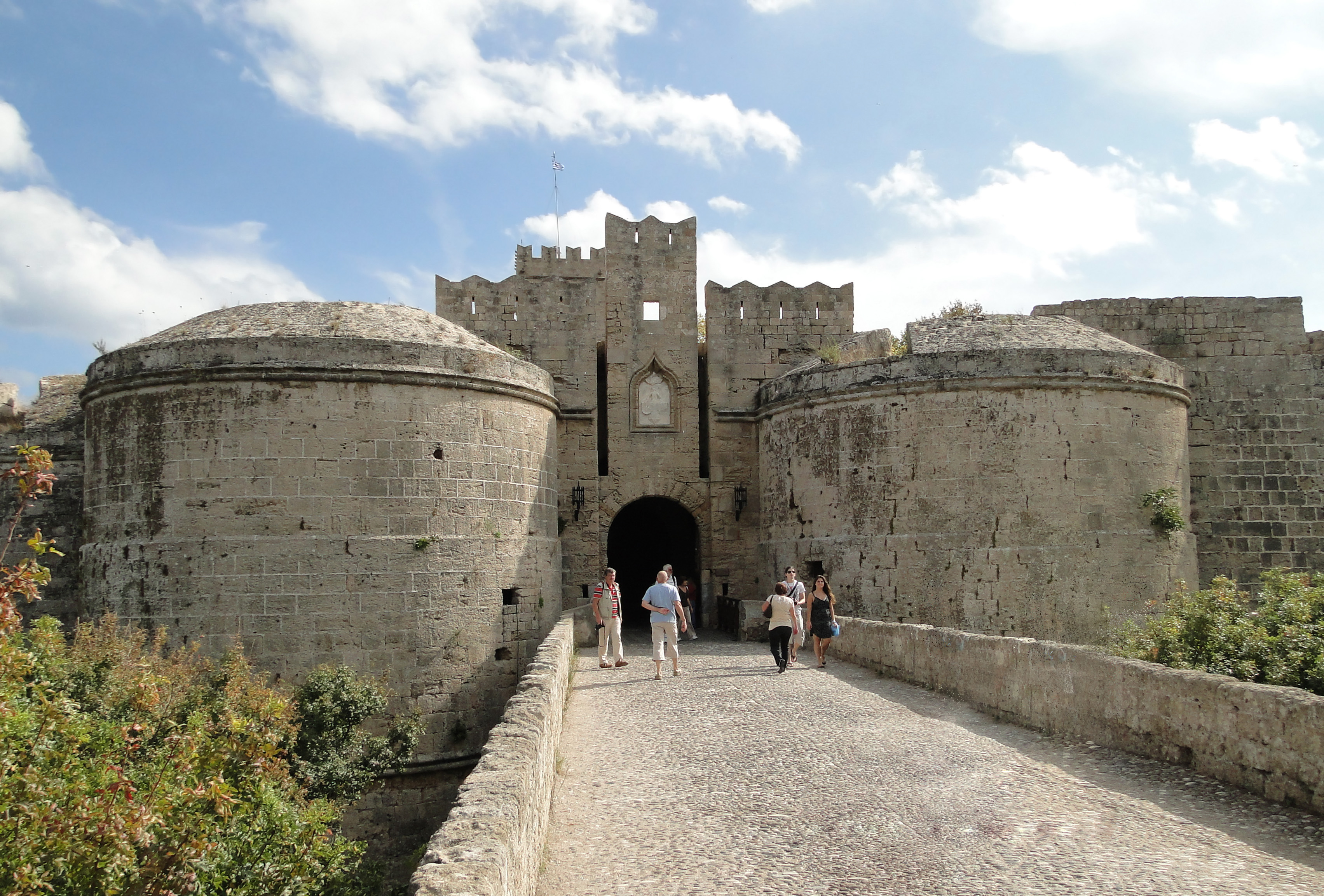 Gate d'Amboise in the Old town of Rhodes, Greece